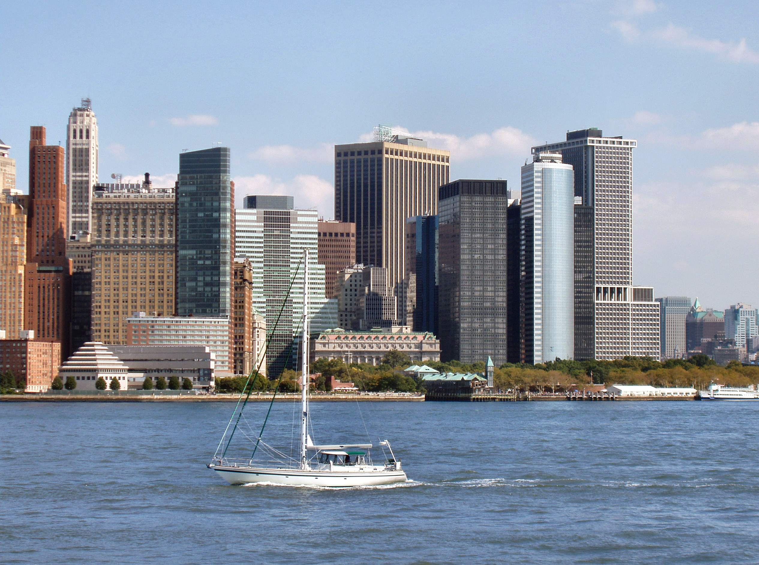 Upper New York Bay from the New Jersey shore at the Statue of Liberty park. Photo shot by Derek Jensen (Tysto), 2004-September-26